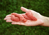 channeled applesnail (Pomacea canaliculata) eggs on hand.